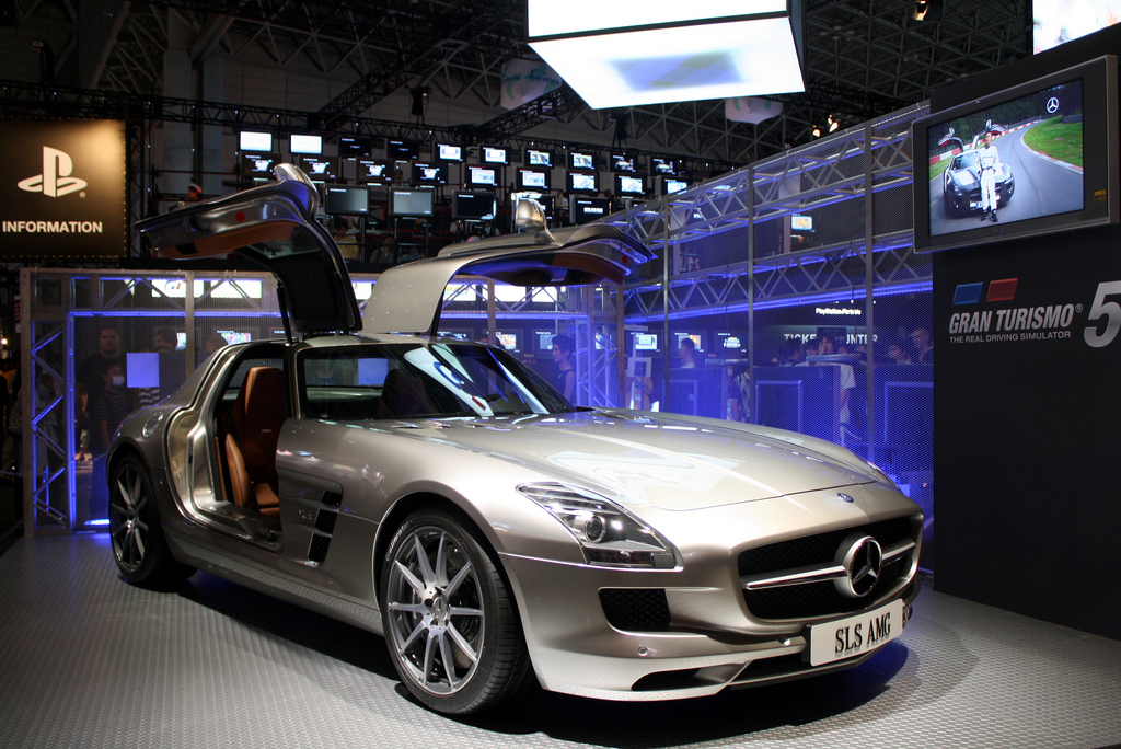 A Mercedes-Benz SLS AMG at Gran Turismo 5 promotion: first day of Tokyo Game Show 2009